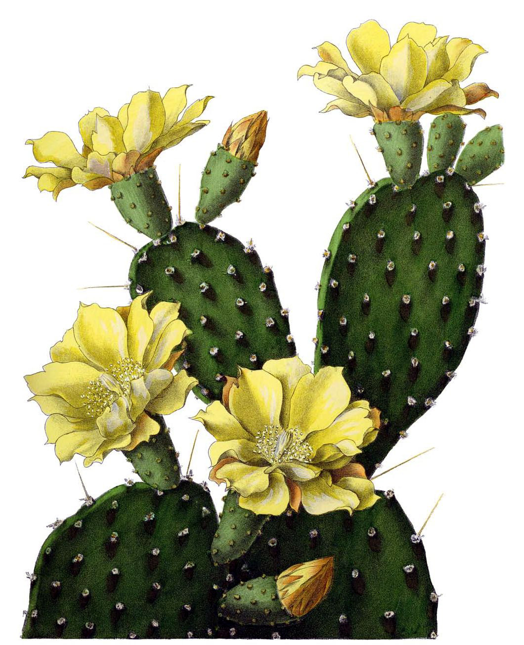 Opuntia decumbens